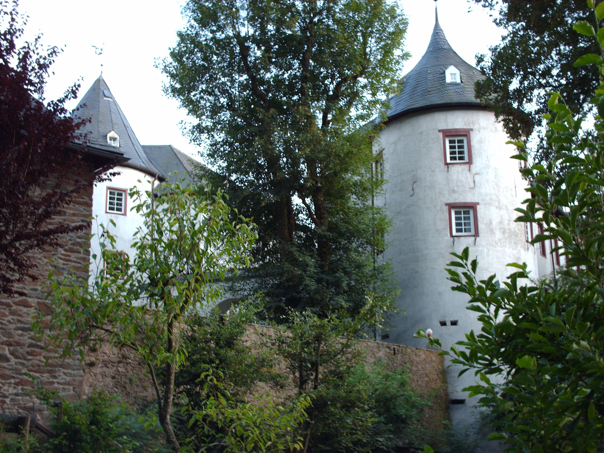 Bilstein Castle, Lennestadt, Germany check usage